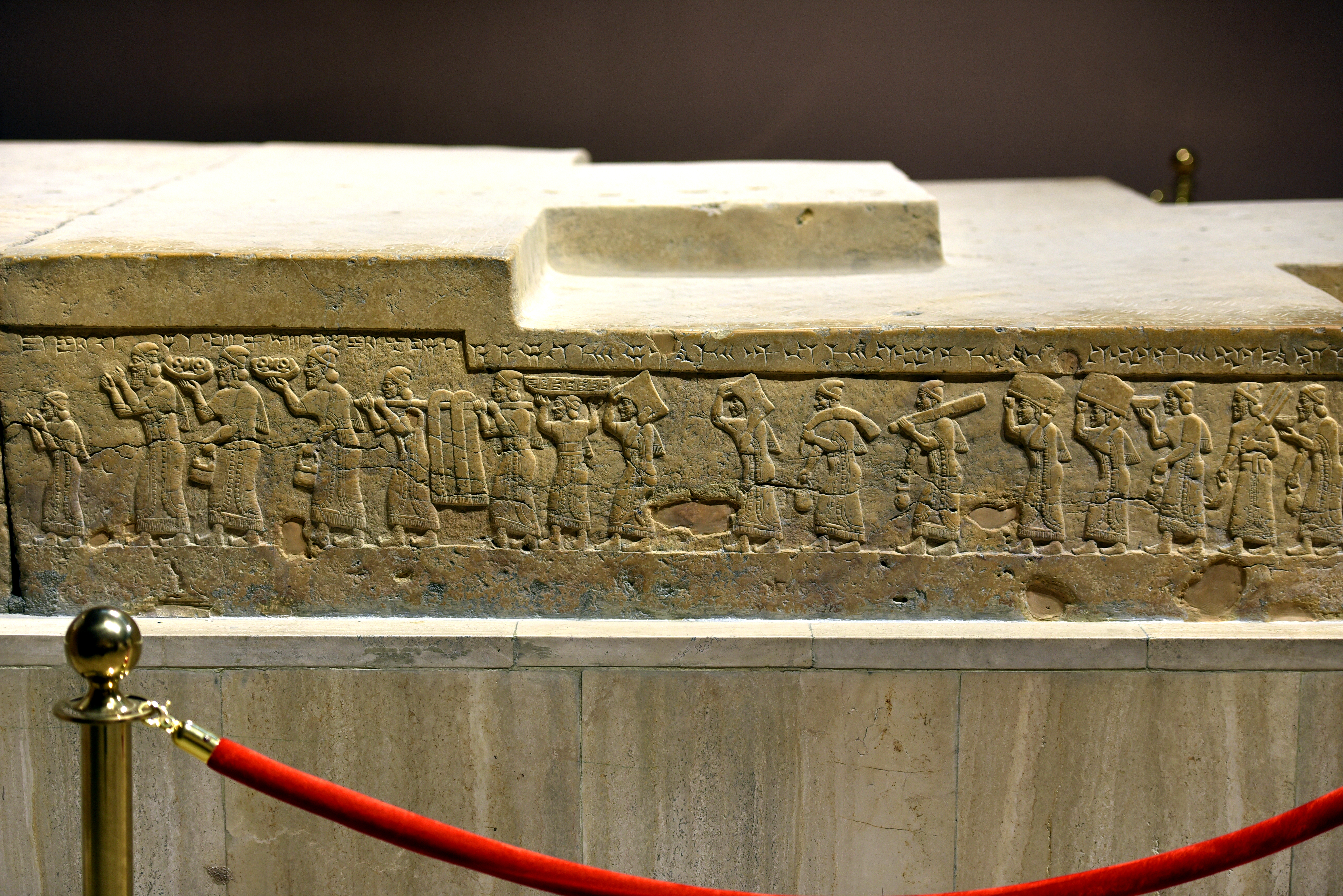 Tributary procession headed by Qalparunda of the Land of Unqi (Pattin), detail of the throne dais of Shalmaneser III. "'The tribute of Qalparunda of the land of Unqi, silver, gold, tin, bronze, vessels of bronze, ivory, ebony, logs of cedar, colored cloths and linen goods and yoked horses I received." The dais was completed around 846-845 BCE (and that would be the Shalmaneser III's 13th year of reign). On display in the Iraq Museum in Baghdad, Iraq.